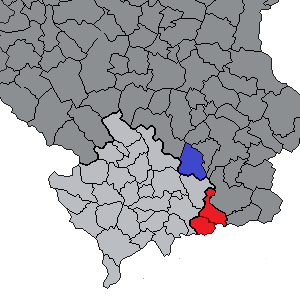 Map of Presevo Valley. Presevo and Bujanovac are marked in red, while Medvedja is marked in blue